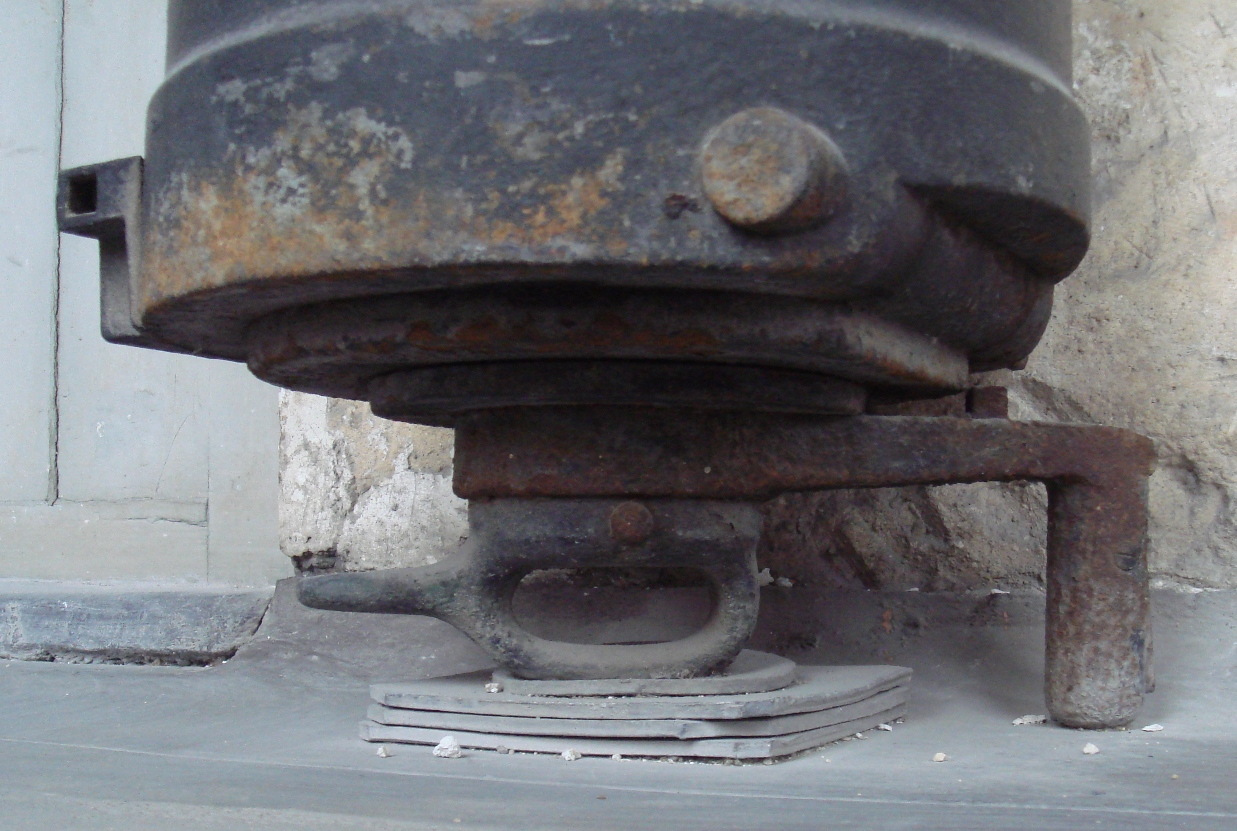 Canon_Lahitolle_95mm_breech_system